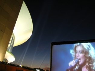 Inflatable AIRSCREEN with projection in the Telmex Auditorium in the city of Guadalajara, México.